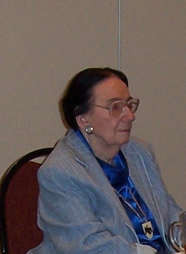 Ruth Geede